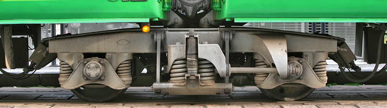 Nippon Sharyo Type 108A bogie truck of Fukui Railway Type 200